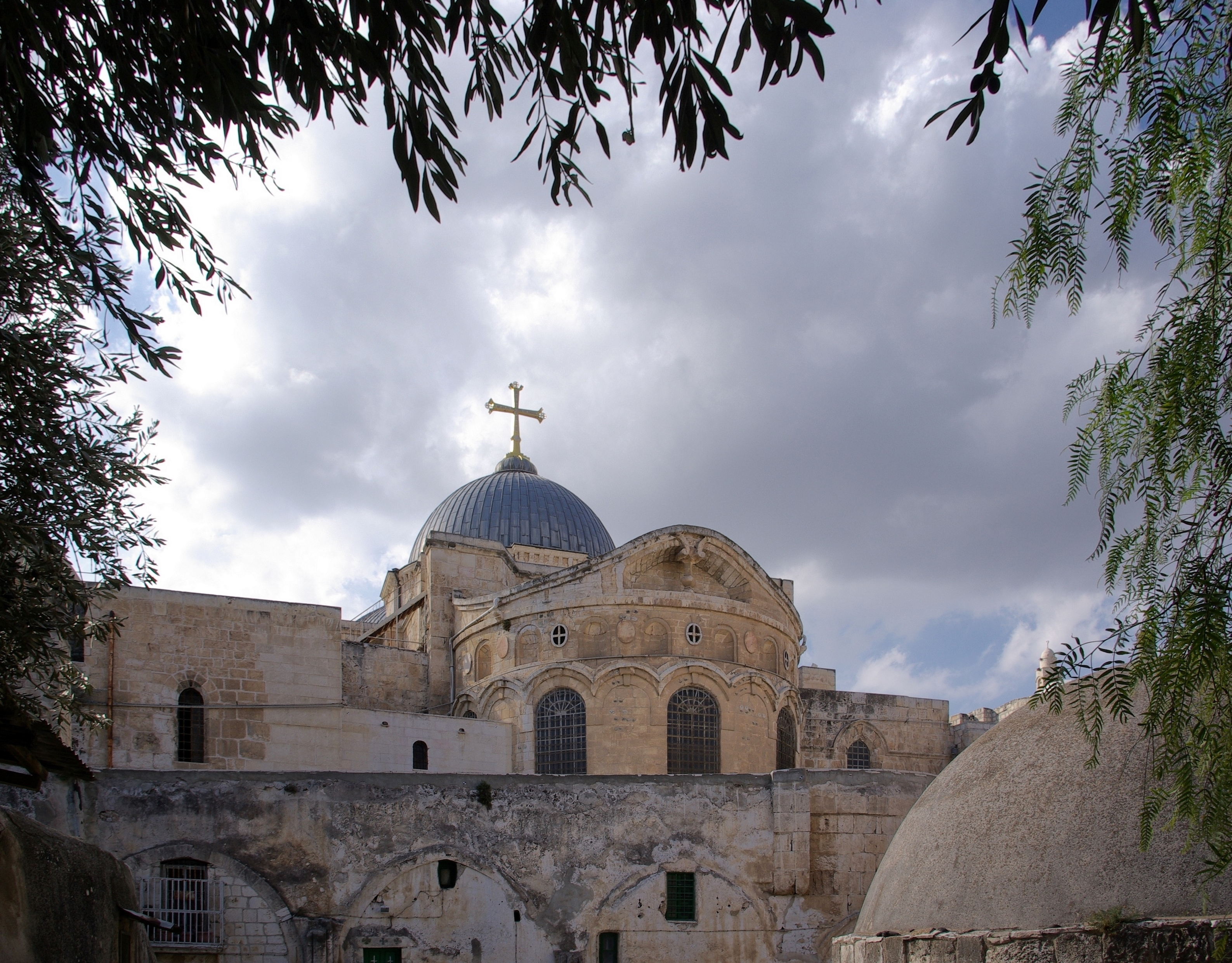 Jerusalem, On the roof of the church of the Holy Sepulchre